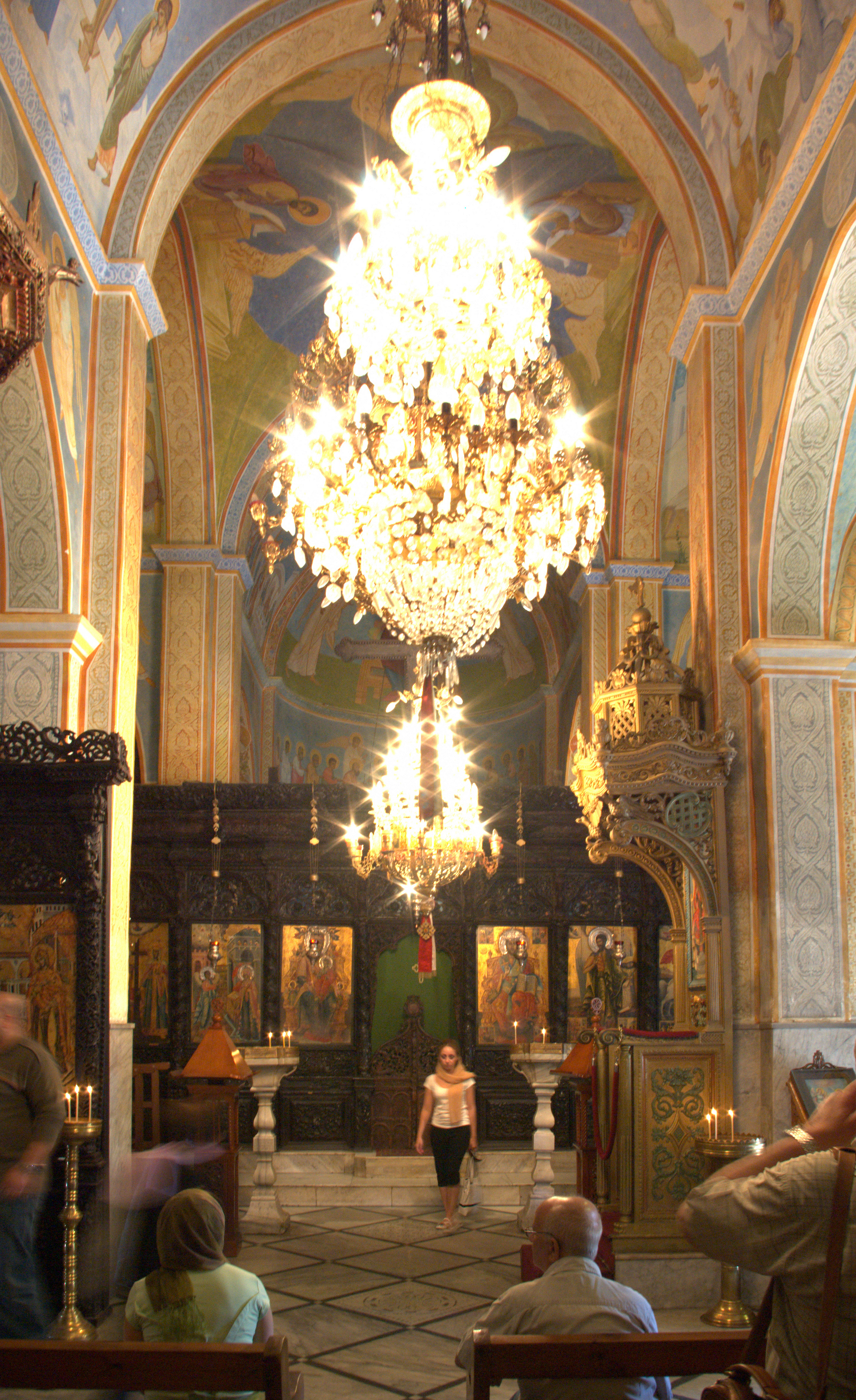 Greek Orthodox Church of the Archangel Gabriel, Nazareth